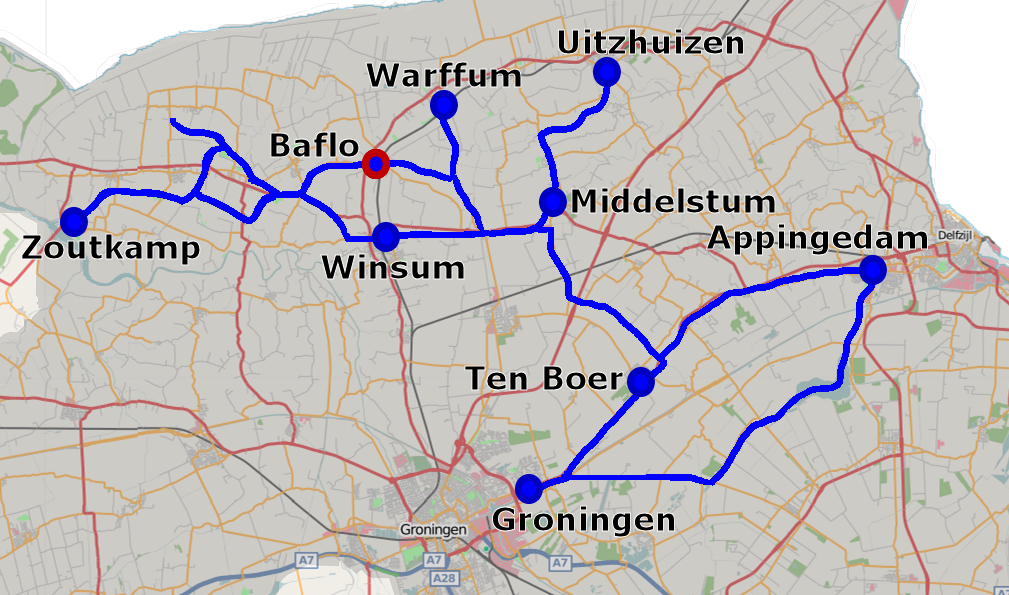 Map of the Noorder Rondritten route with city names